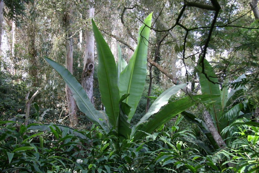 An Abyssinian Banana, Ensete ventricosum, in the Tropical Garden at Lotusland, near Santa Barbara, California. Musaceae Ensete ventricosum Abyssinian Banana Ethiopia Tropical Garden, Lotusland Photographed at Lotusland Santa Barbara, California USA 15 Sep 2006 Northwest Horticulture Society Santa Barbara Tour i091506 281